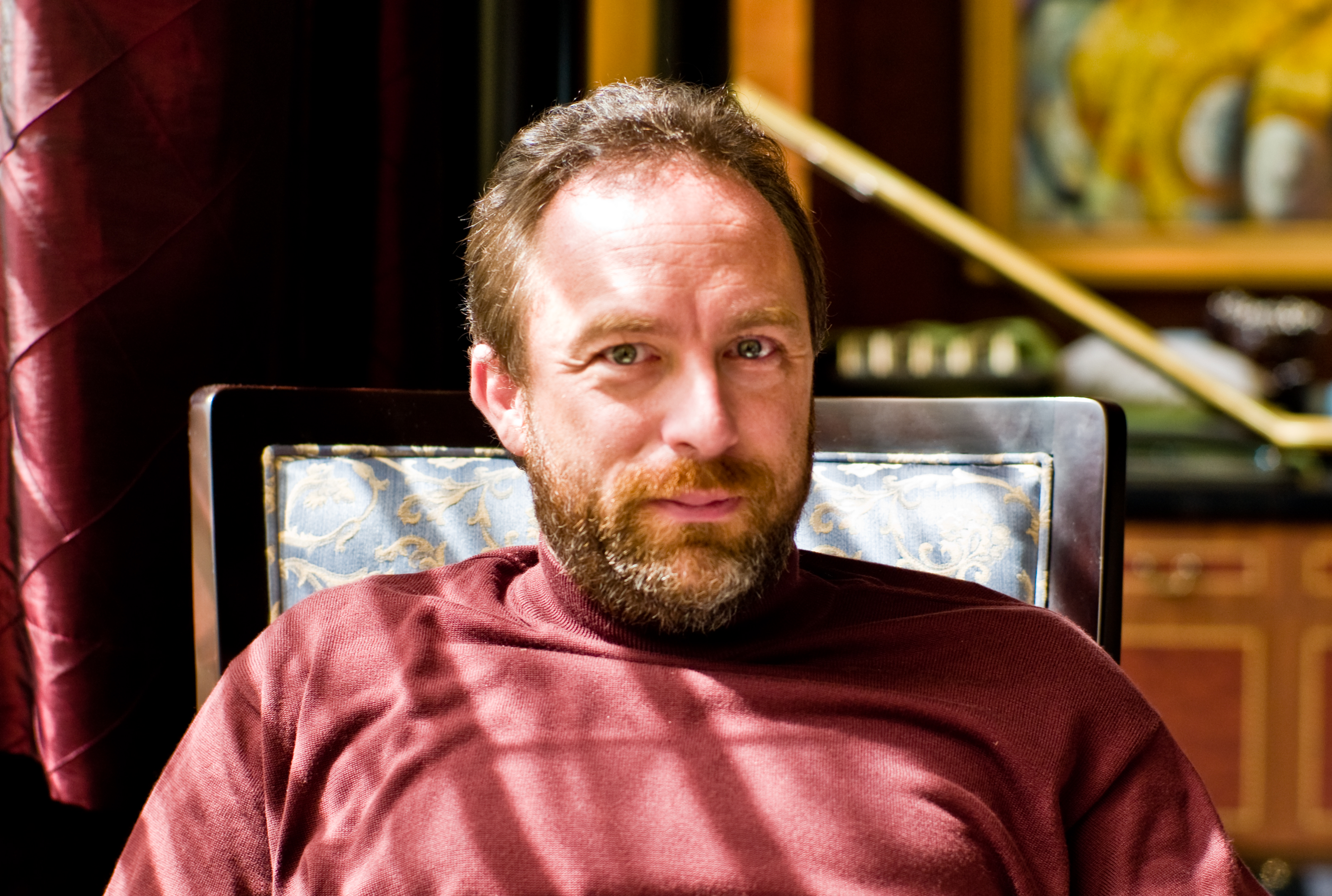 Jimmy Wales